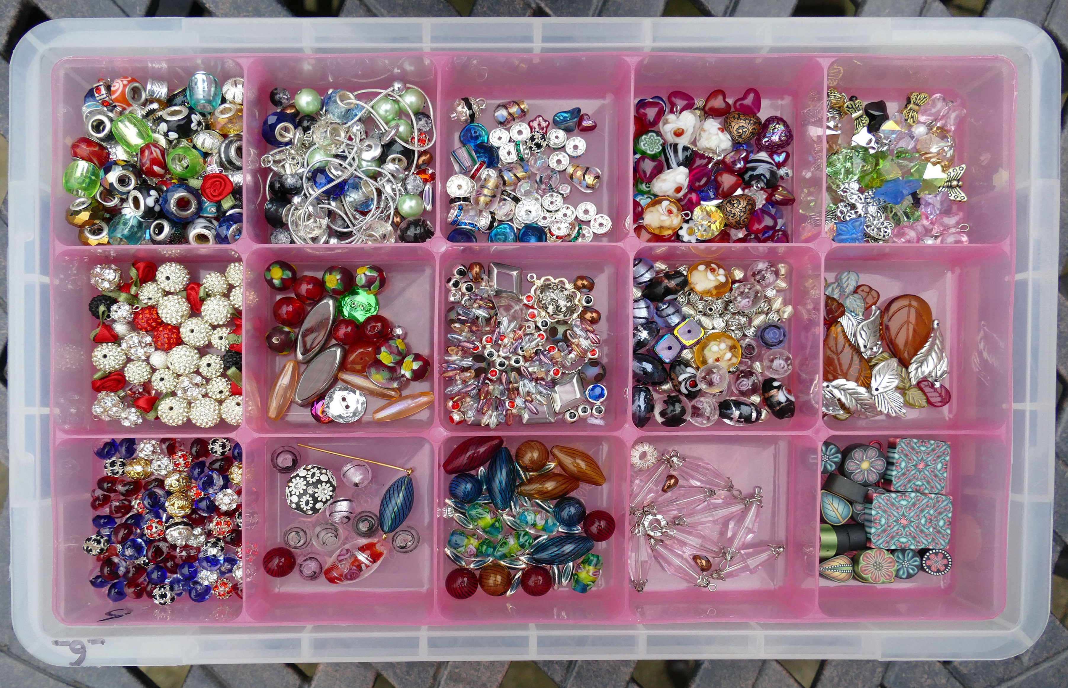 A box of beads for our jewellery hobby.